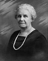 Esther Voorhees Hasson, first superintendent of the United States Navy Nurse Corps. Also served as a contract nurse and reserve nurse with the Army Nurse Corps. Official U.S. Navy Photograph, now in the collections of the National Archives.